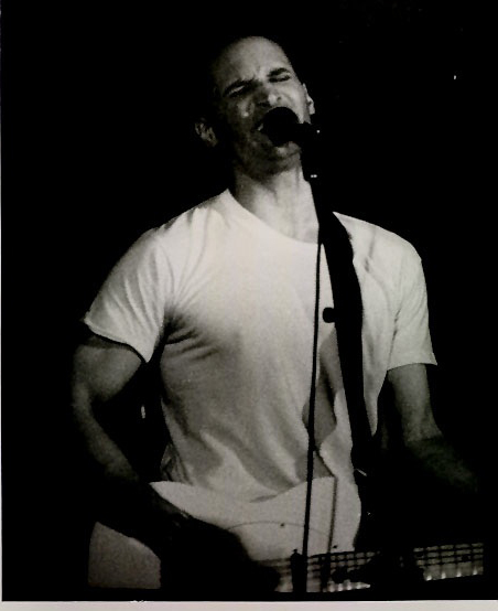 Sam Lapides